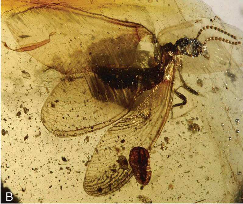 Photomicrographs of Cambay amber (Early Eocene) termites. B Parastylotermes krishnai Engel & Grimaldi, sp. n., holotype (Stylotermitidae: Tad-277)